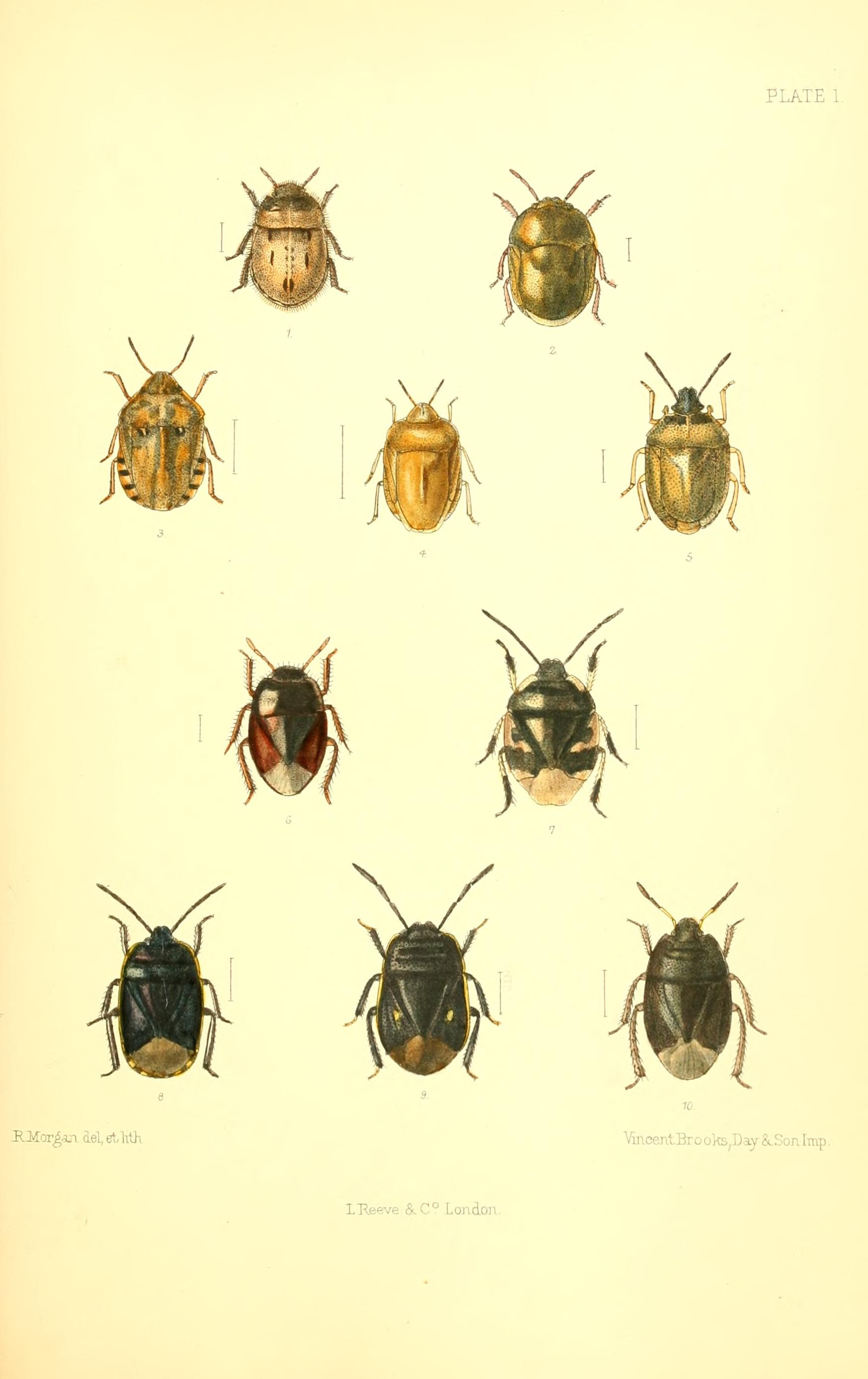 Edward Saunders, 1892 The Hemiptera Heteroptera of the British Islands : a descriptive account of the families, genera, and species indigenous to Great Britain and Ireland : with notes as to localities, habitats Plate 1 plate text 1 Odontoscelis fuliginosa (Linnaeus, 1761) 2 Thyreocoris scarabaeoides (Linnaeus 1758) 3 Eurygaster maura (Linnaeus, 1758) 4 Eurygaster austriaca (Schrank, 1776) synonym nigra Fieber 5 Podops inunctus (Fabricius, 1775) 6 Geotomus punctulatus (A. Costa 1847) 7 Tritomegas bicolor (Linnaeus, 1758) 8 Canthophorus dubius (Scopoli, 1763) 9 Adomerus biguttatus (Linnaeus, 1758) 10 Sehirus morio (Linnaeus, 1761)